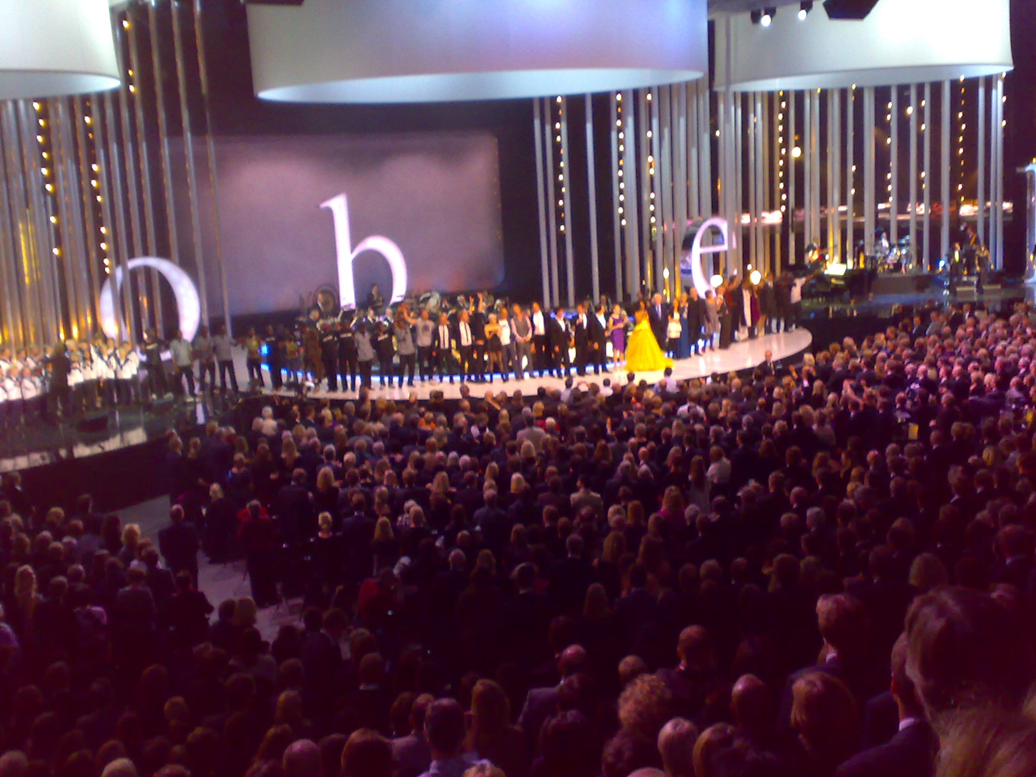 Diana Ross (yellow dress) closes off the 2008 Nobel Peace Prize Concert with all the artists at the Oslo Spektrum